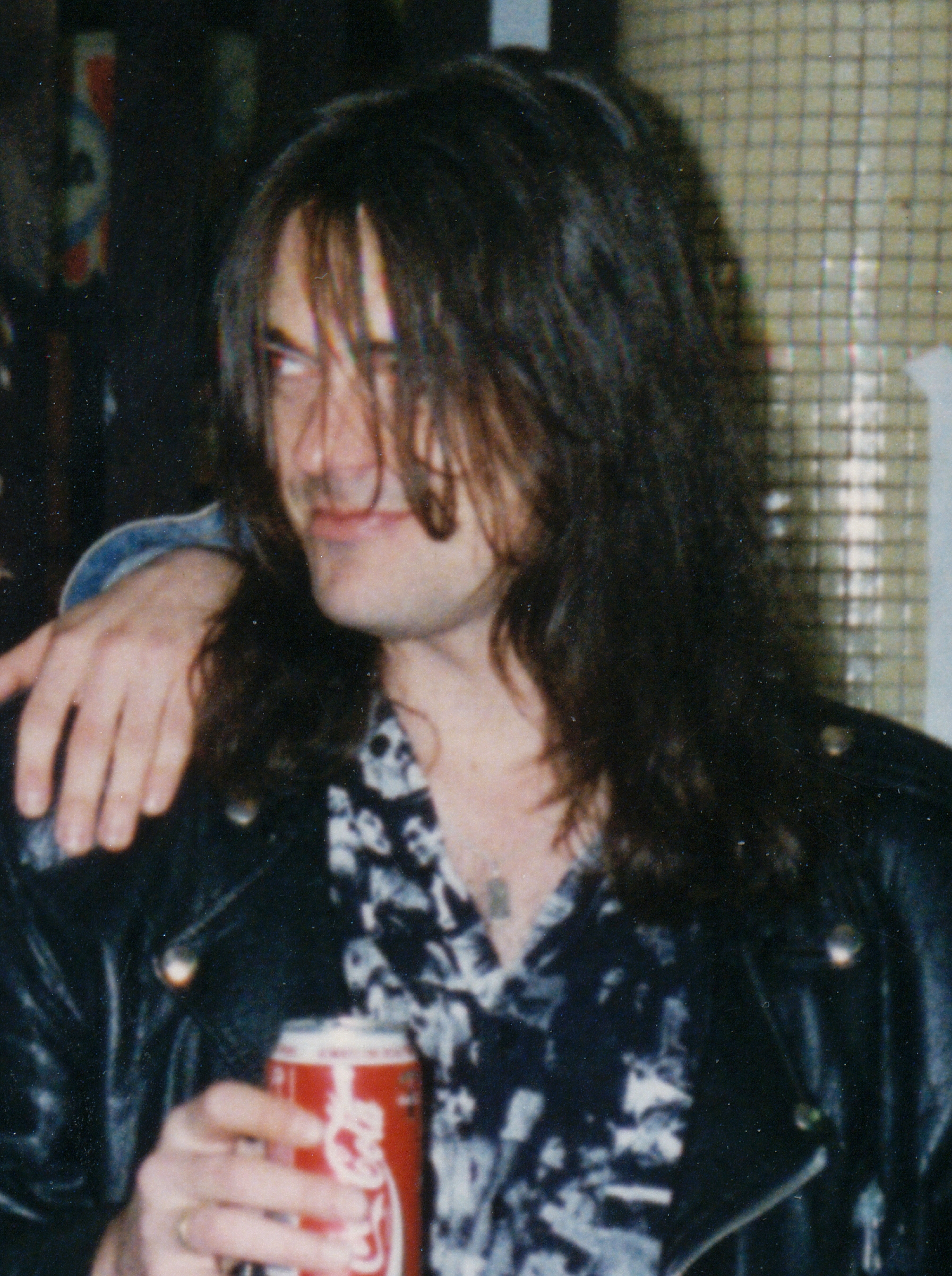 Slovak guitarist and composer Peter "Peci" Uherčík in 1995.